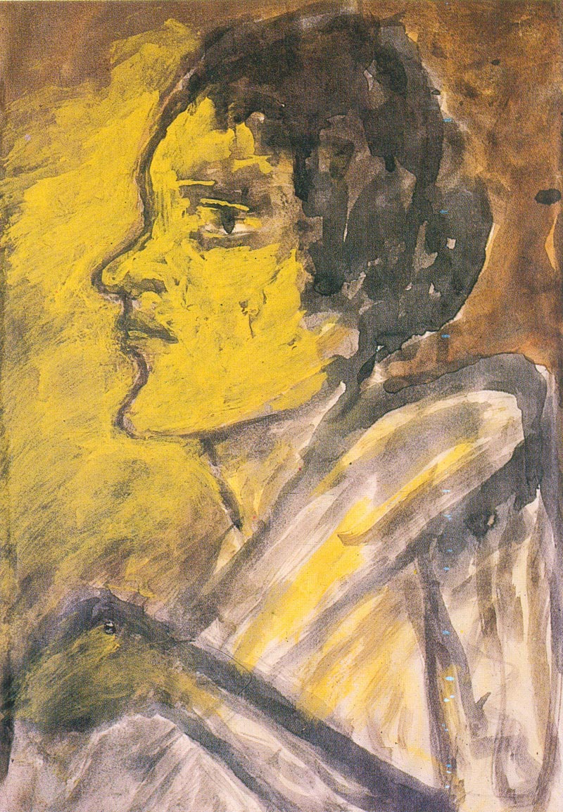 Woman National Gallery of Modern Art, New Dehli